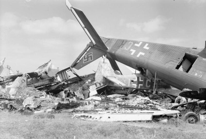 Germany Under Allied Occupation Two members of a Royal Air Force Disarmament Wing check an aircraft wreckage dump at Flensburg airfield. Here the fuselage of a Junkers Ju.52 transport aircraft can be seen lying over a Focke Wulf Fw.190.